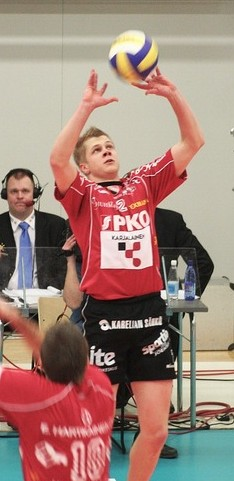 Finland volleyball player Petteri Penttinen set the ball in Finland league game